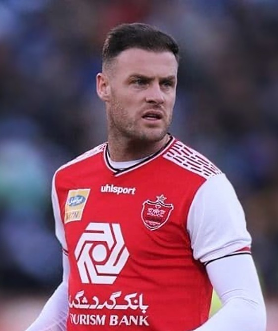 Anthony Stokes in Tehran derby, Persepolis F.C. v Esteghlal F.C., 6 February 2020.